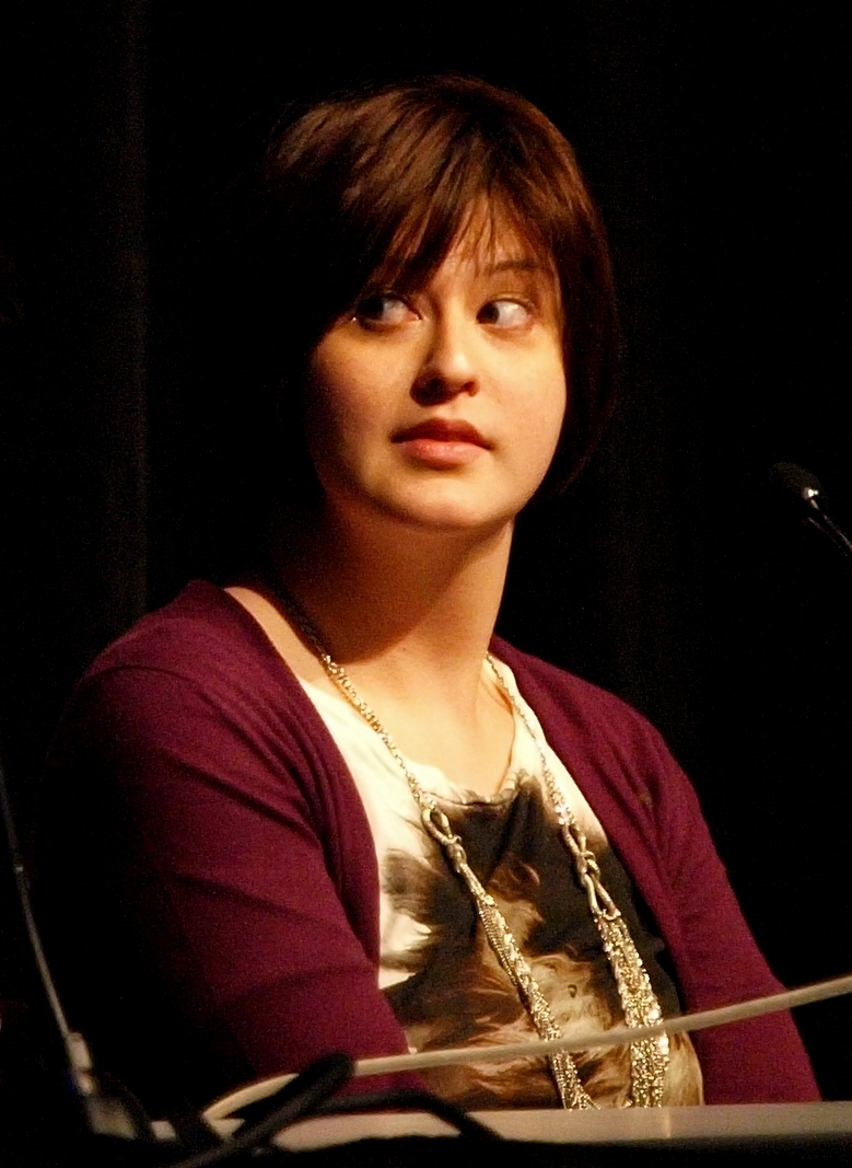 Kim Swift (Airtight Games) for a panel THE GAME DESIGN CHALLENGE 2010: REAL-WORLD PERMADEATH at the Game Developers Conference